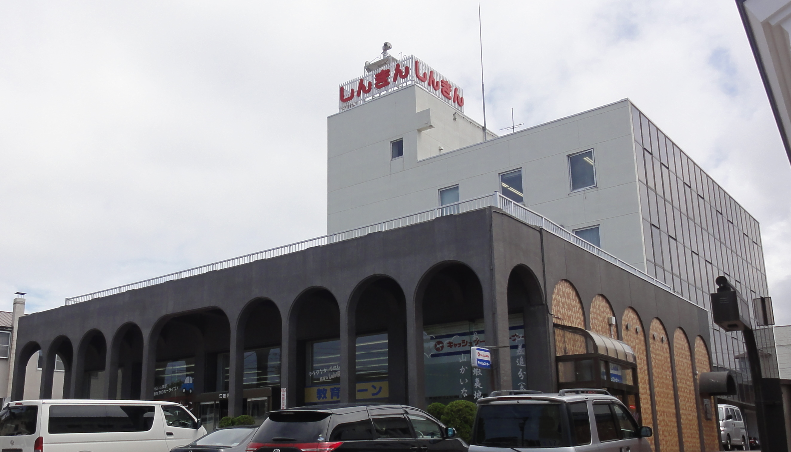 Esashi shinikn bank,Hokkaido Pref., Japan